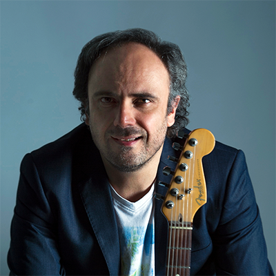 Iyad Rimawi Portrait